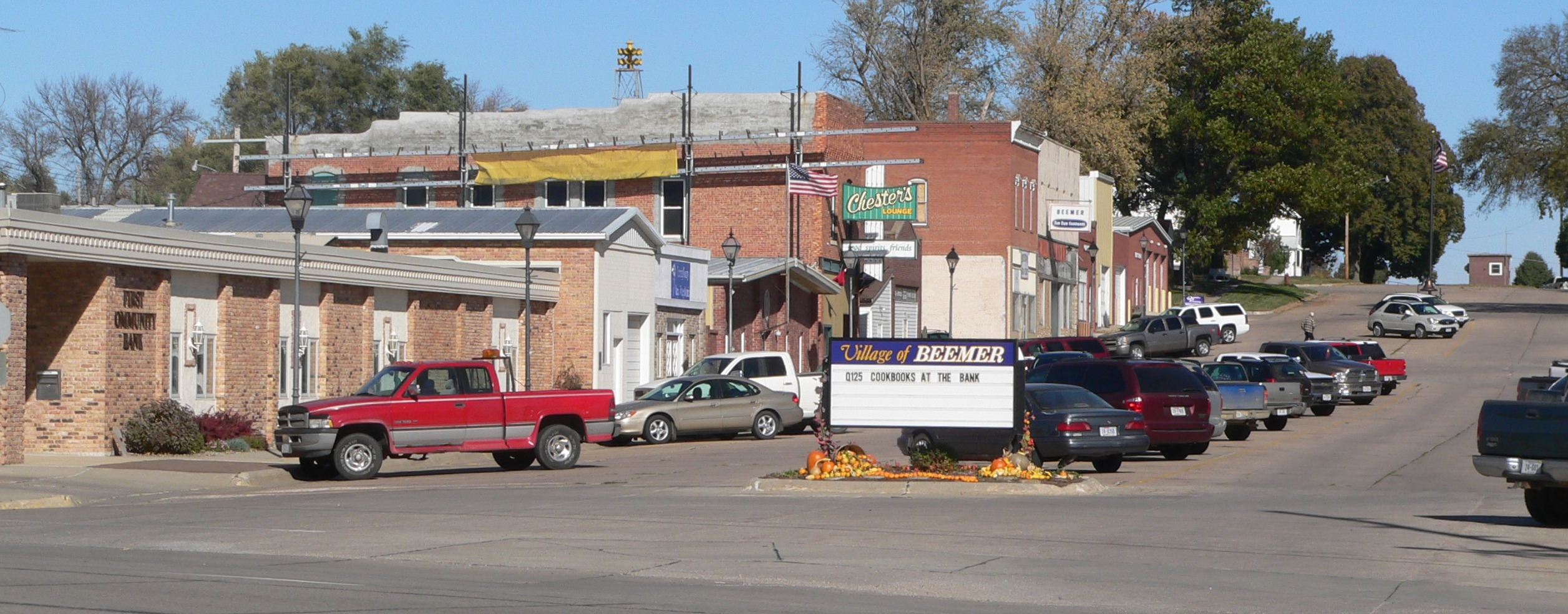 Downtown Beemer, Nebraska: west side of Main Street, seen from the southeast, across U.S. Highway 275.